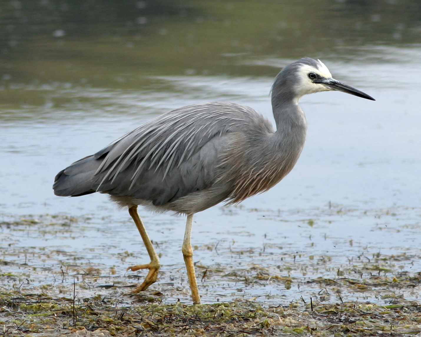 White-faced Heron, Egretta novaehollandiae; wild bird